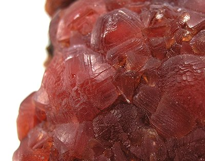 Rhodochrosite Locality: Louise Mine, Bürdenbach, Altenkirchen, Wied Iron Spar District, Westerwald, Rhineland-Palatinate, Germany (Locality at ) Size: small cabinet, 8.5 x 5.8 x 3.3 cm Rhodochrosite This is an incredibly rare German piece! I have never seen such a good specimen for sale before from the Louise Mine, which is an entirely different district within the historic Rhineland region of Germany, from whence came far fewer rhodos than the famous Wolf Mine, in Herdorf. This mining area is, rather, known for its bournonite more than anything else. The specimen features translucent bundles of gem rhodochrosite crystals, to about 1 cm across. THey drape a 3-dimensional knoll of extremely high-contatn manganese ore matrix, and in fact a seam of massive rhodochrosite runs through internally as well, coming out on the back side. This is a gorgeous specimen that is really as close to German rhodo can come to a crystallographic style from the more modern N'Chwaning Mine known as "wheatsheaves". This is a gorgeous specimen, on its own aesthetic merit, aside from teh valuable locality and historic significance.